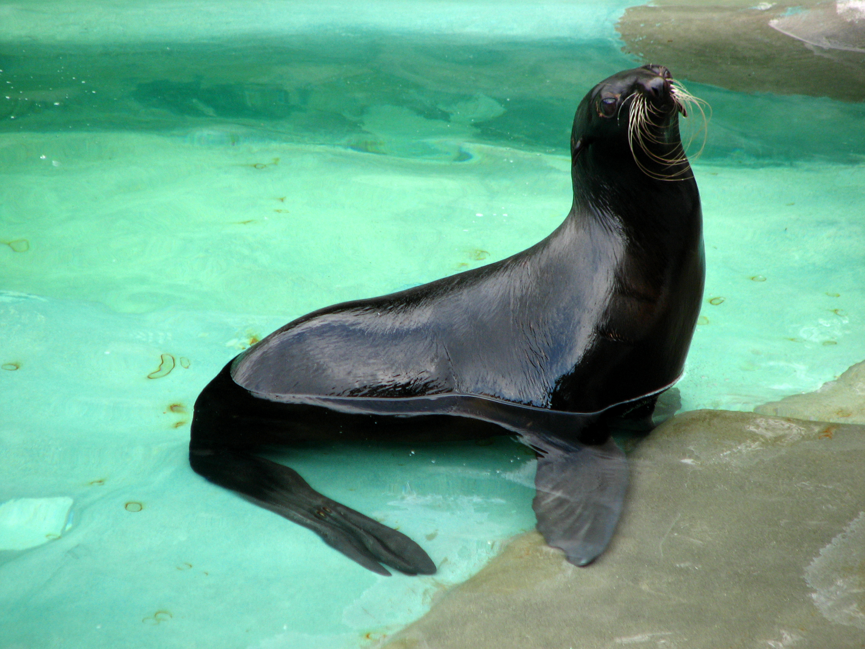 Moscow Zoo. Northern Fur Seal (Callorhinus ursinus).